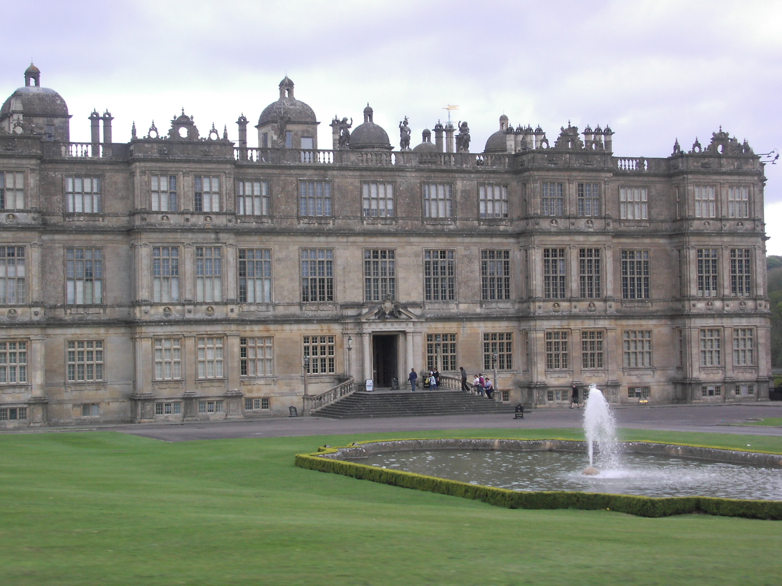 Longleat citadel.